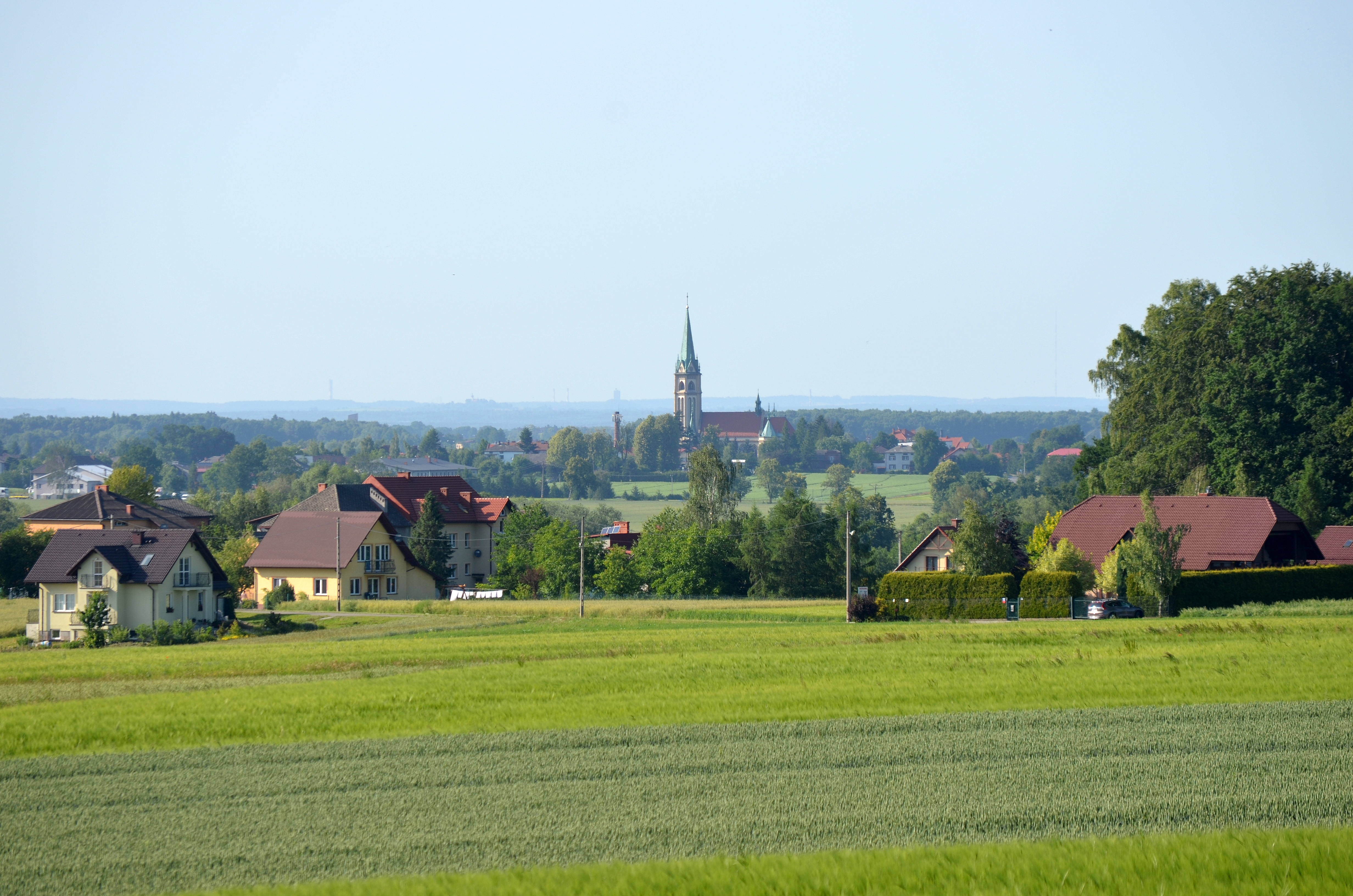 Wilamowice